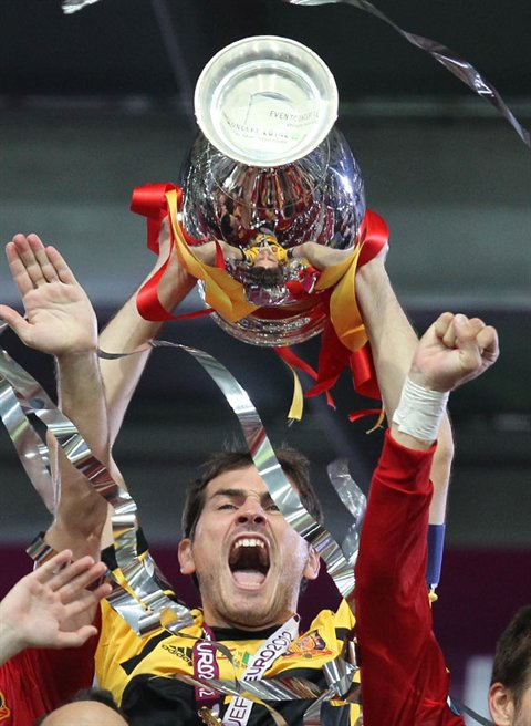 Iker Casillas with Euro 2012 tropy after final Spain-Italy